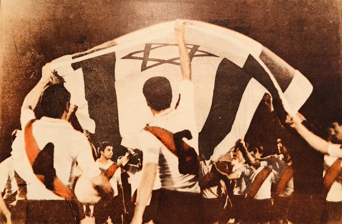 River Plate players in a friendly match played in Tel Aviv against the national team of Israel, 1969.